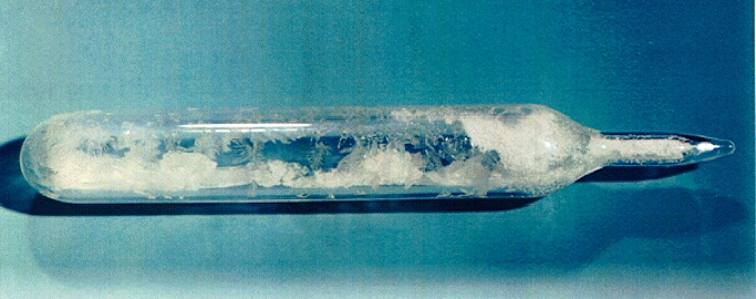 Uranium hexafluoride crystals sealed in an ampoule, from